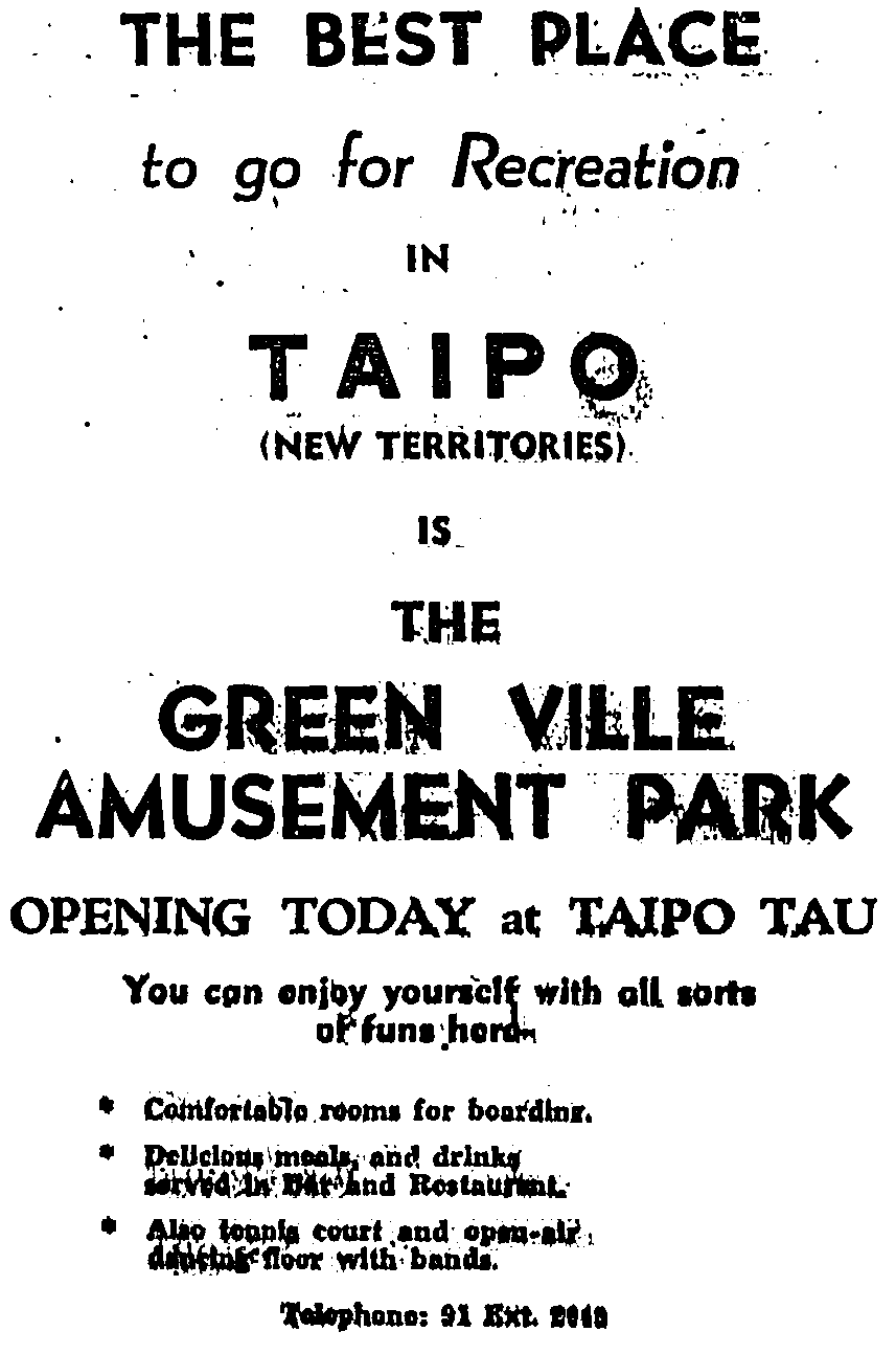 "Green Ville Amusement Park" open advertisement on 22-Jan-1949 中文（香港）: 香港的「綠野僊館」在1949年1月22日刊登的開幕廣告。